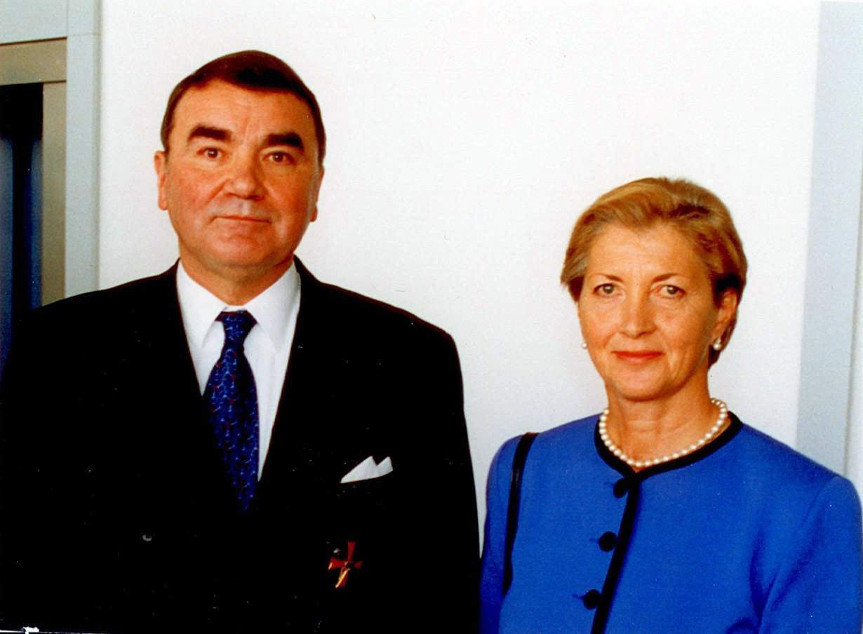 Gerhard and Waltraut Fels, 1998, he just received the "Bundesverdienstkreuz"